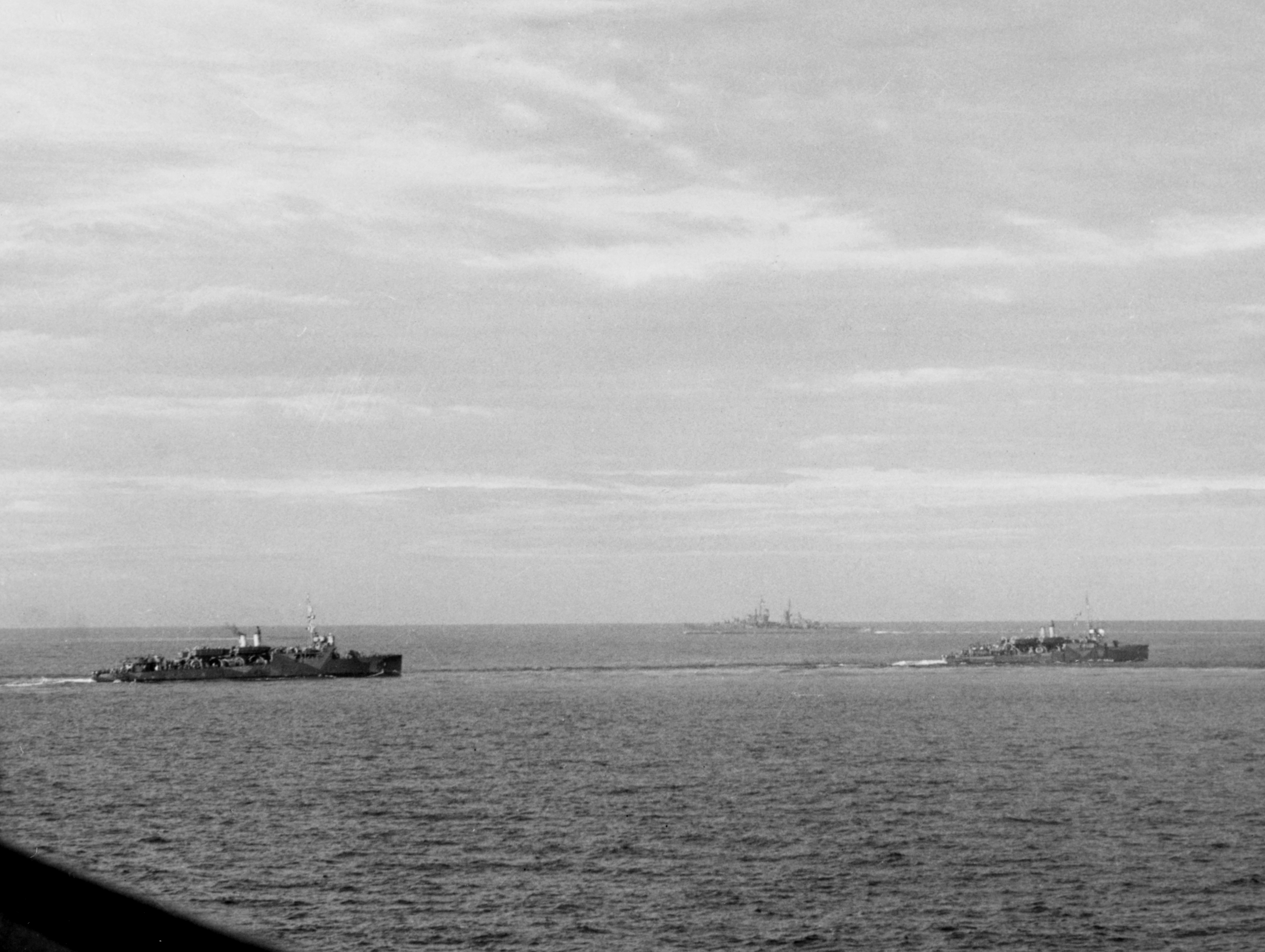 The U.S. Navy high-speed transports USS Gregory (APD-3), left, and USS Little (APD-4) underway during practice landings in the Fiji Islands on 30 July 1942, shortly before the invasion of Guadalcanal and Tulagi. Note the light cruiser beyond them, possibly USS San Juan (CL-54). Gregory and Little were both sunk off Guadalcanal on 5 September 1942.